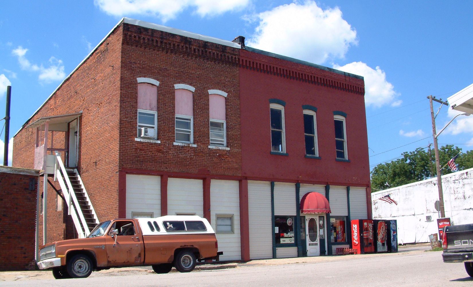 Storefronts at the corner of White Street and Division Street in the town of Clarks Hill in Tippecanoe County, Indiana. Photo looks north.